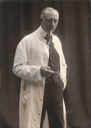 Danish architect and ceramic artist Arnold Krog (1856-1931). Artistic director of the Aluminia faïence factory in Copenhagen.